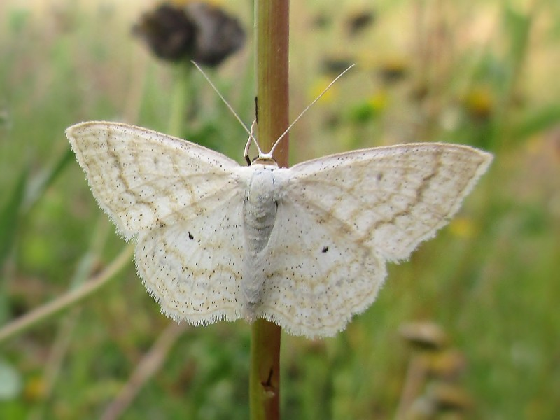 Scopula immutata (Geometridae sp.), Elst (Gld), the Netherlands